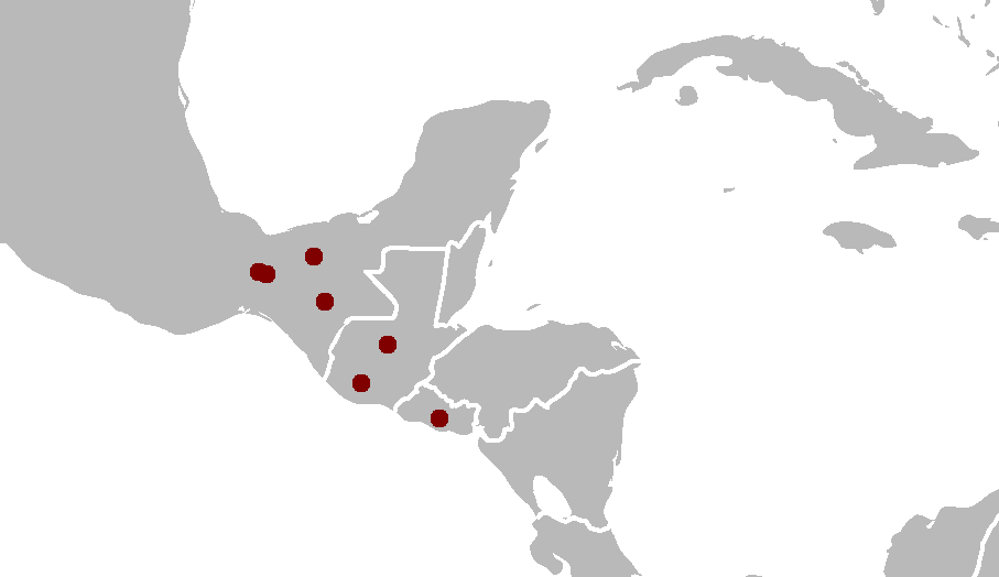 Distribution of Aristolochia arborea based on "Jose Ortega Ortiz: Dos nuevos registros de Aristolochia (Aristolochiaceae) para Veracruz, Mexico. In: Phytologia. 67, No. 1, 1989, p. 94-99"